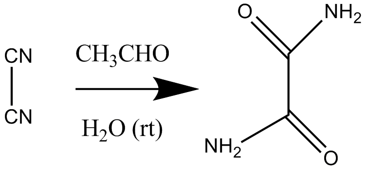 Liebig's oxamid synthesis, first organocat. rct.